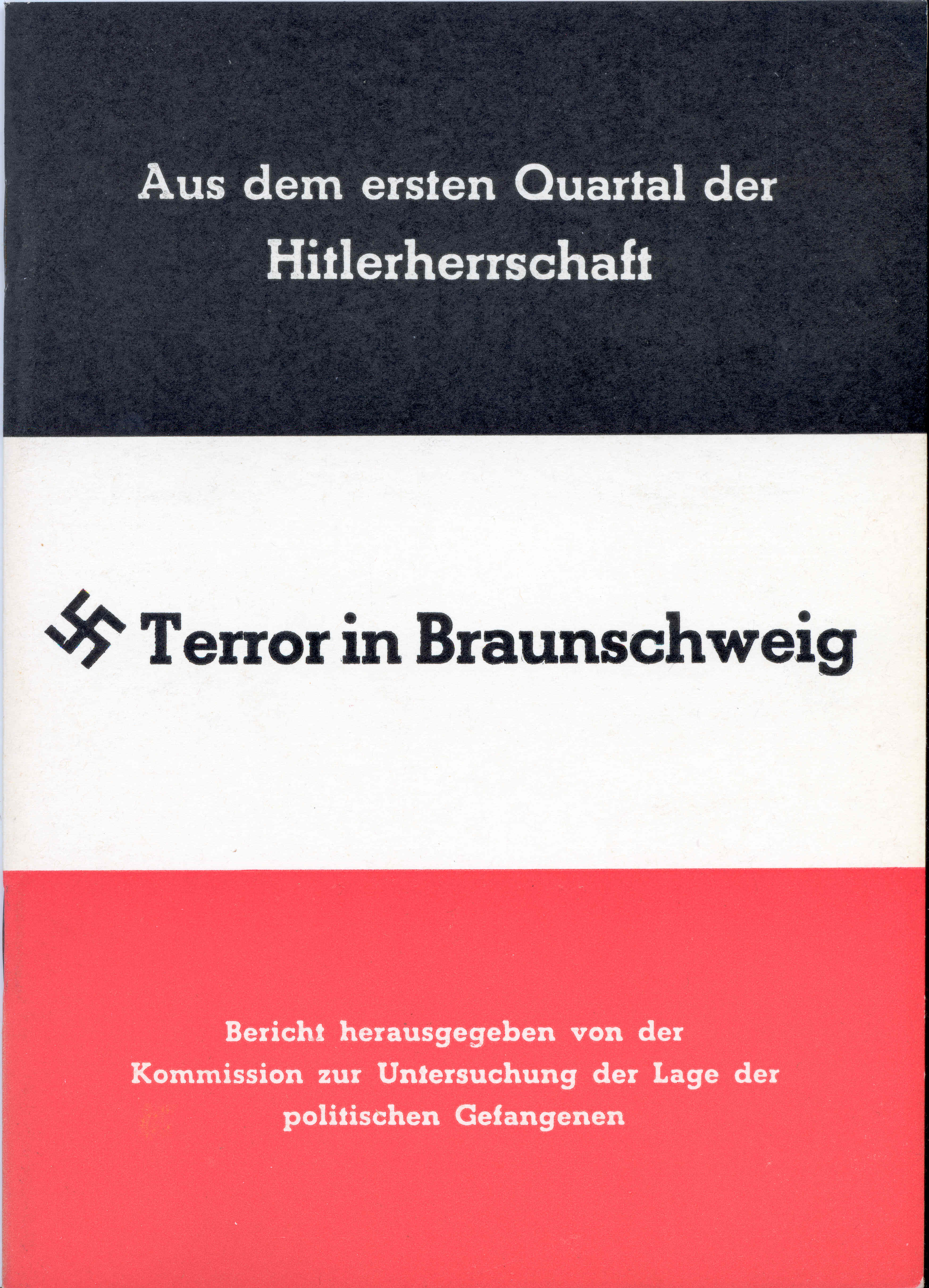 “Terror in Brunswick” by Hans Reinowski.